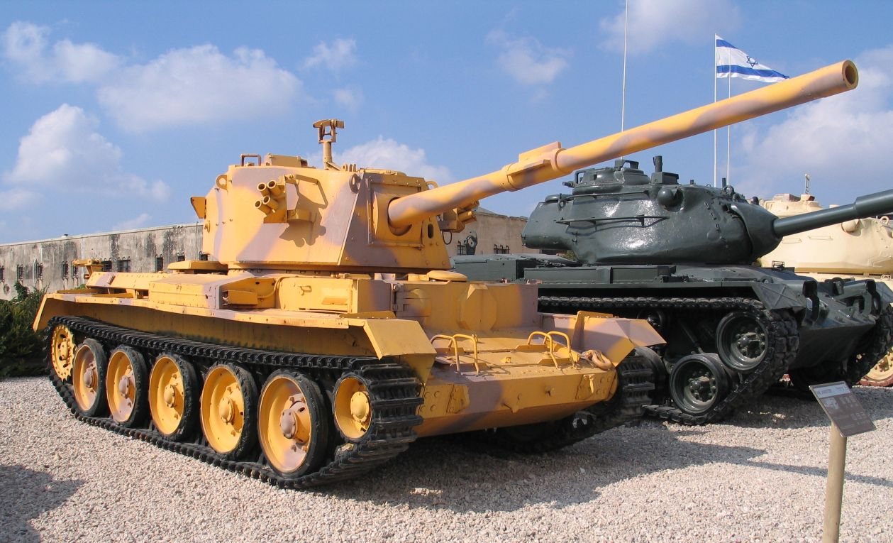 Description: FV 4101 Charioteer tank destroyer in Yad la-Shiryon Museum, Israel. 2005, with an American M-47 Patton tank in the background. Source: Photo by me, User:Bukvoed.